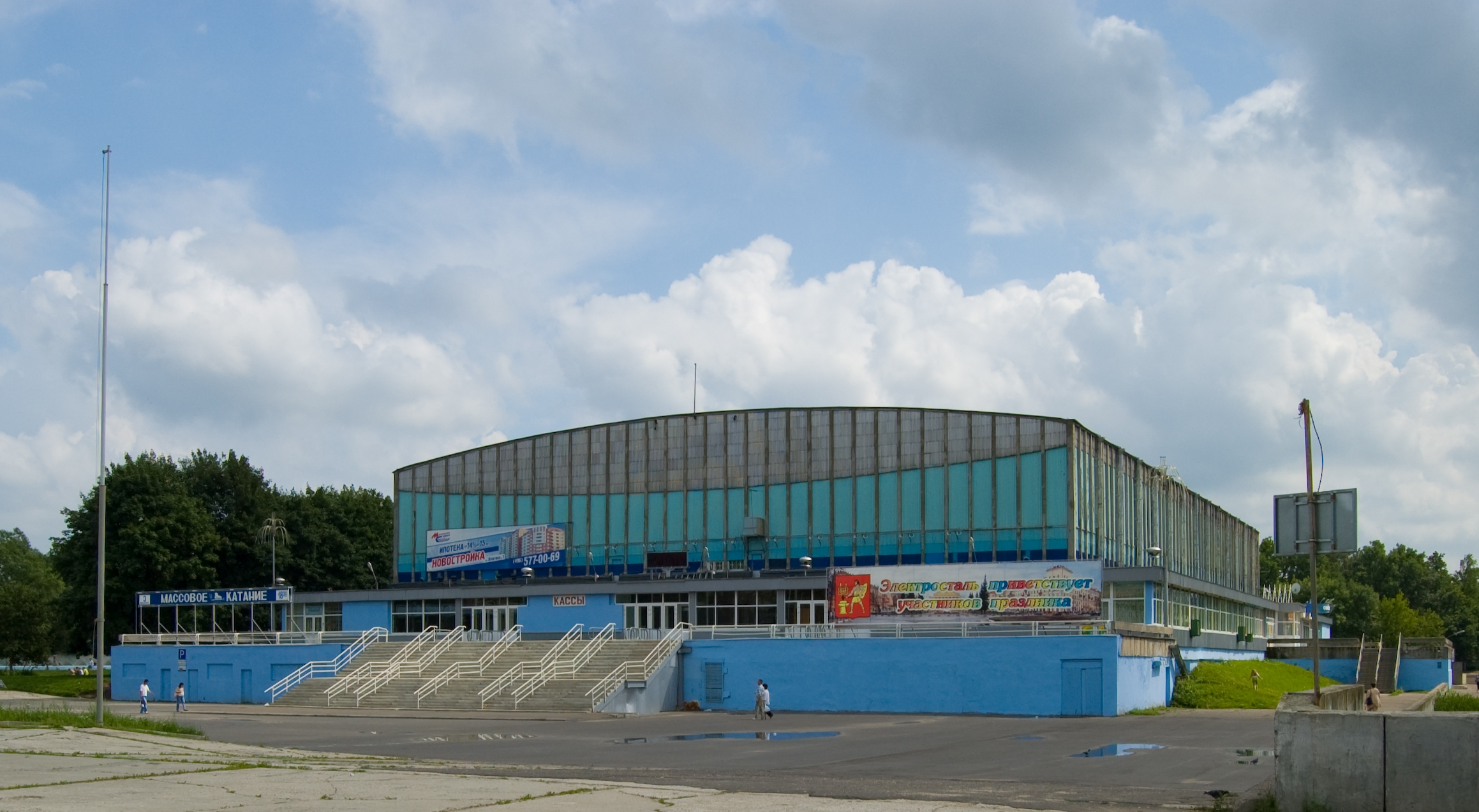 Elektrostal ice rink, Home to the Elektrostal ice hockey team